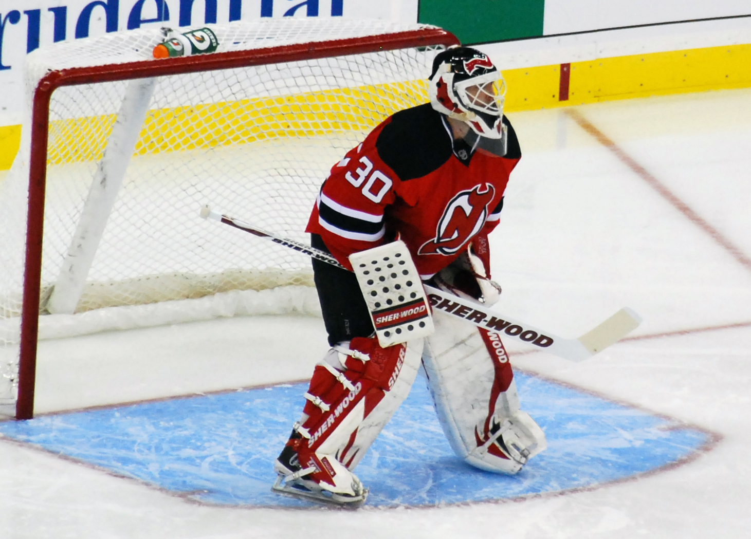 Martin Brodeur against the New York Islanders on November 26, 2011 at the Prudential Center in Newark, NJ